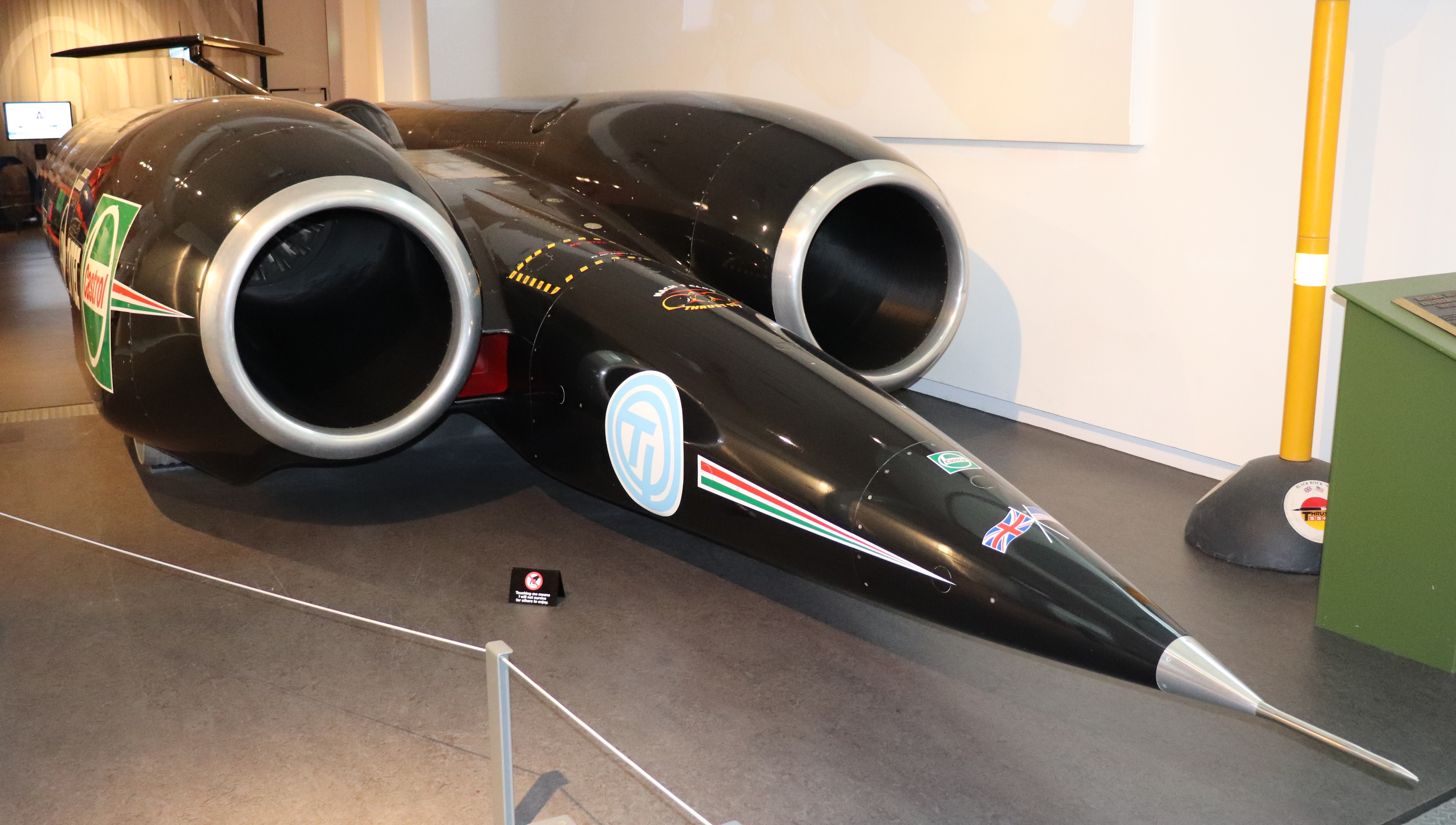 1997 Thrust SSC Taken in the Coventry Transport Museum